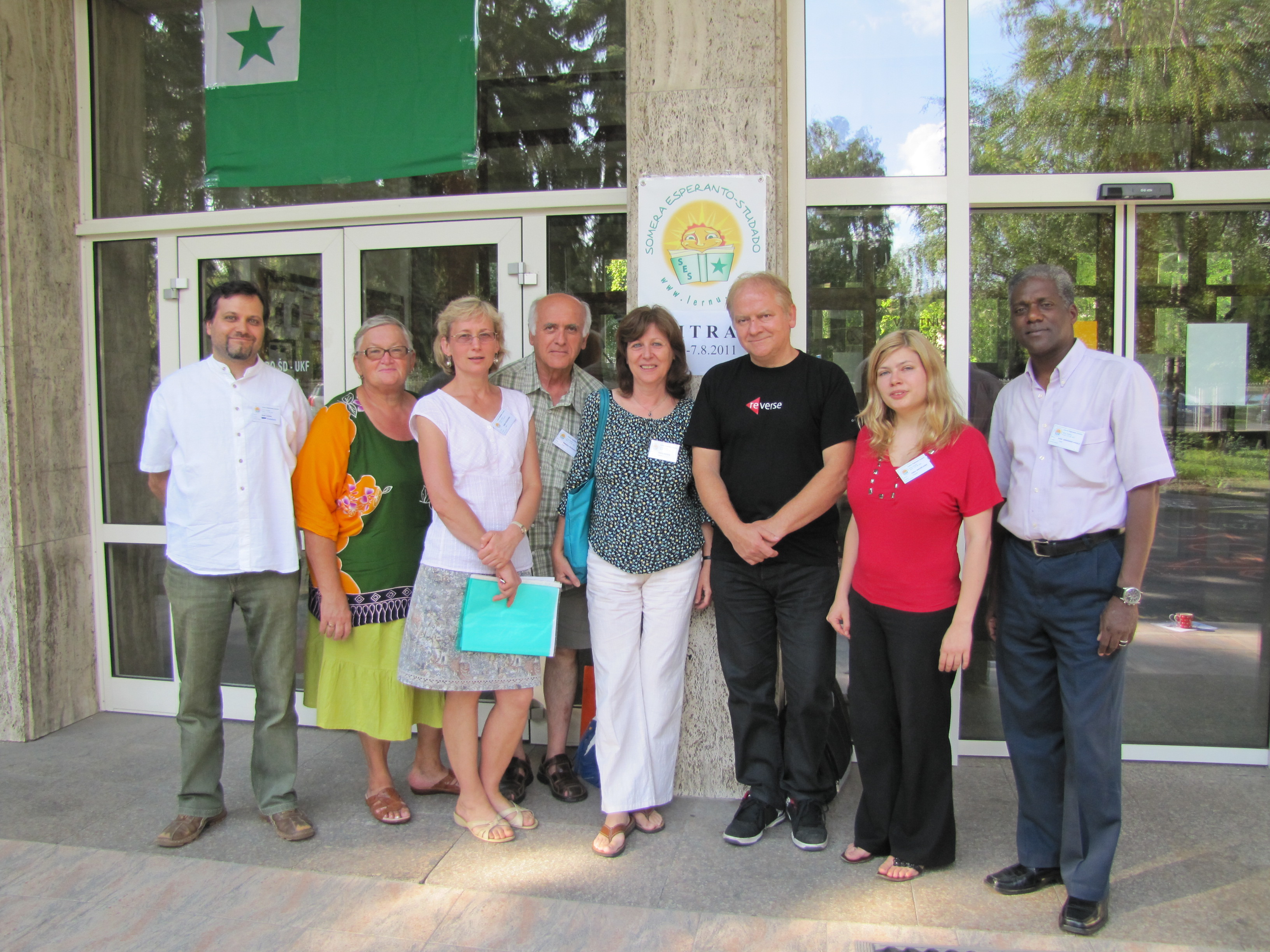 Teachers of the Summer Esperanto Study 2011 organized by E@I in Nitra.